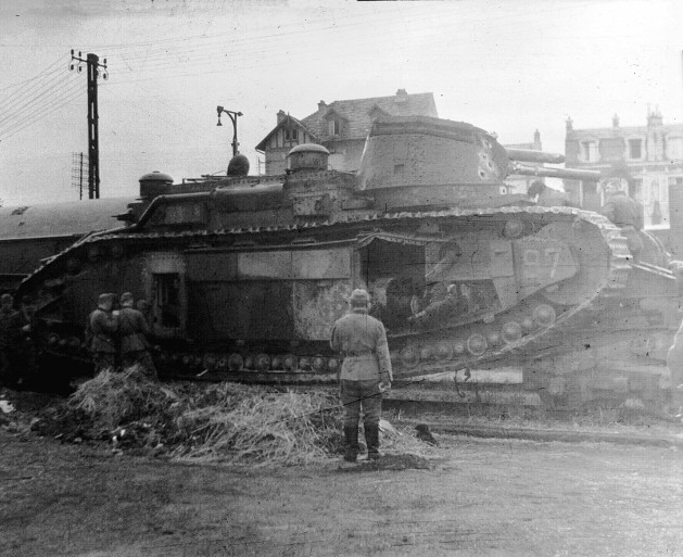 Char 2C no. 97 "Lorraine" after capturing by German forces in western France, summer 1940.